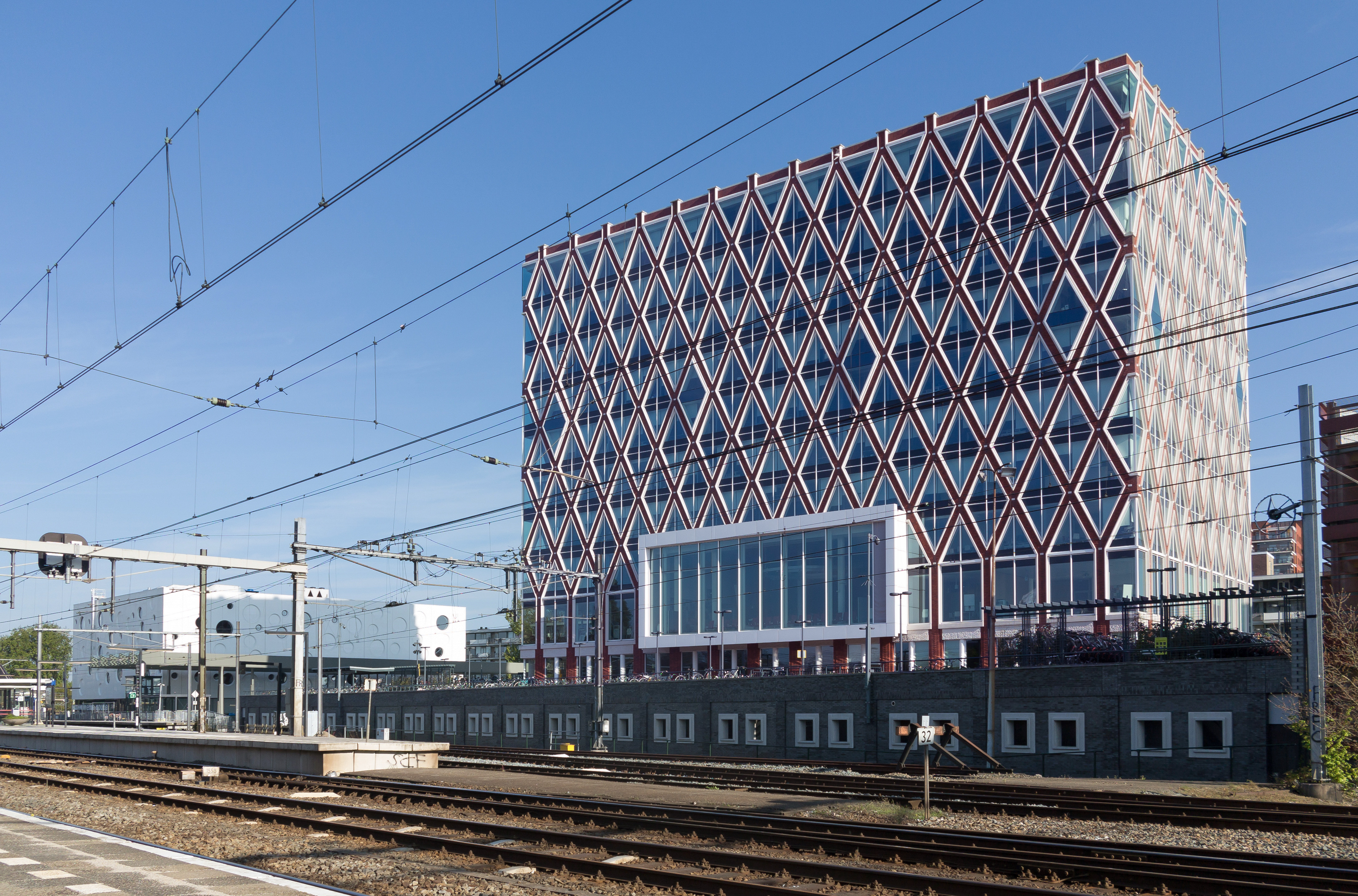 Gouda, new townhall: het Huis van de stad